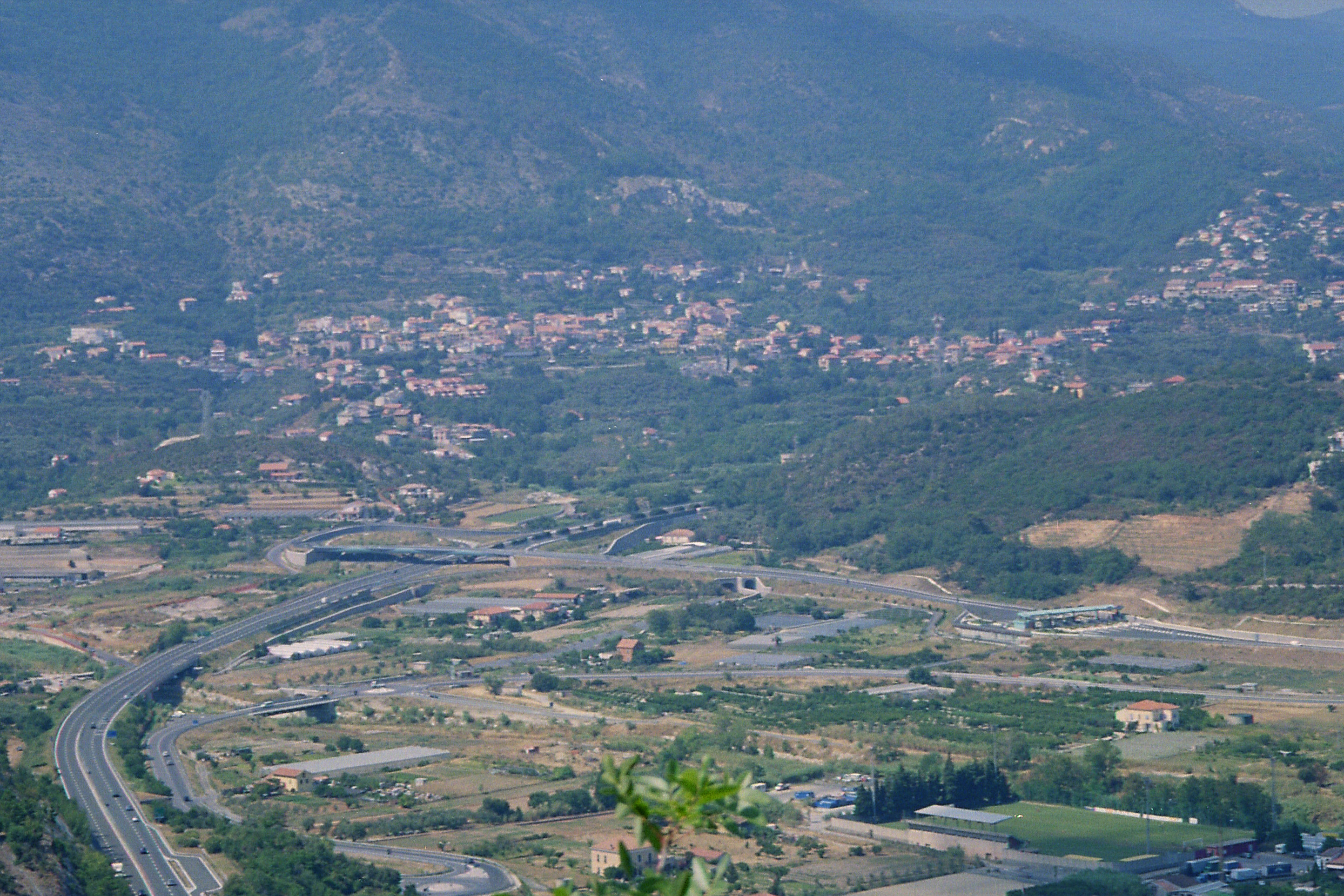 A10 highway, Italy - Borghetto Santo Spirito junction